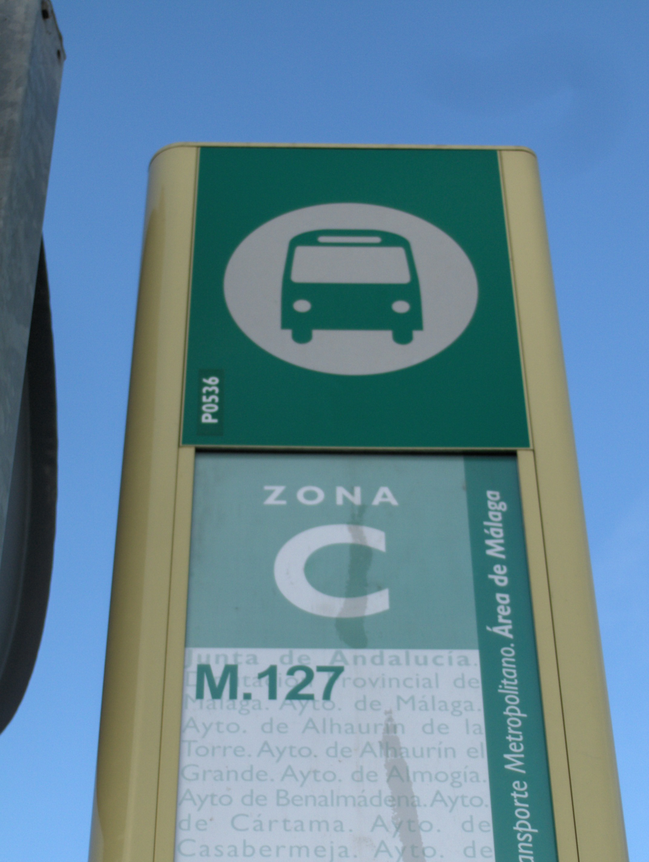 M-127 stop in Las Cañadas, Mijas Costa, Spain.